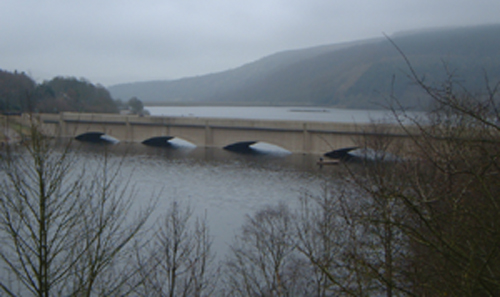 Personal photograph taken by Mick Knapton on 20th March 2005